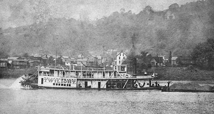 The Twilght at West Elizabeth in 1912